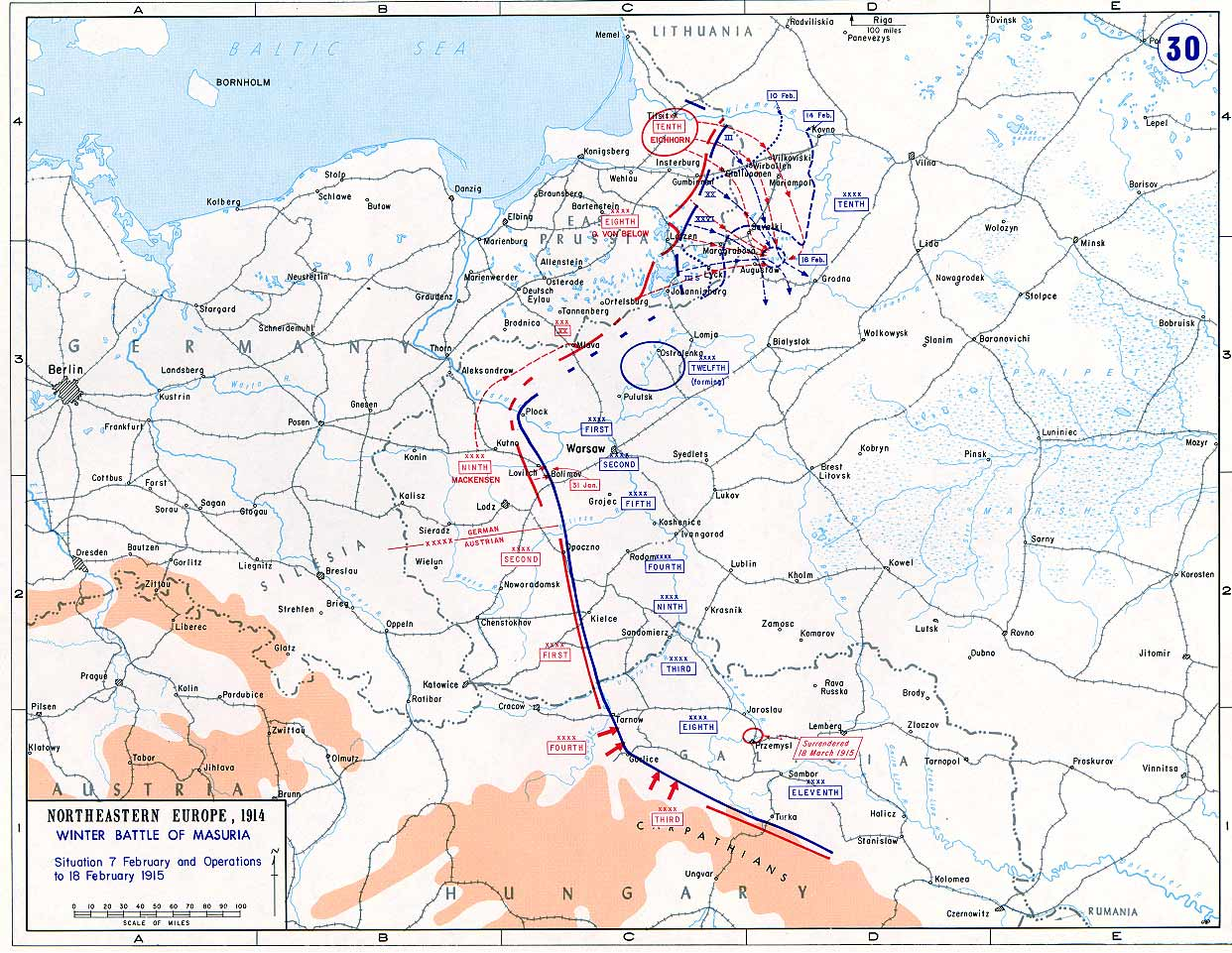 Eastern Front, February 7-18, 1915